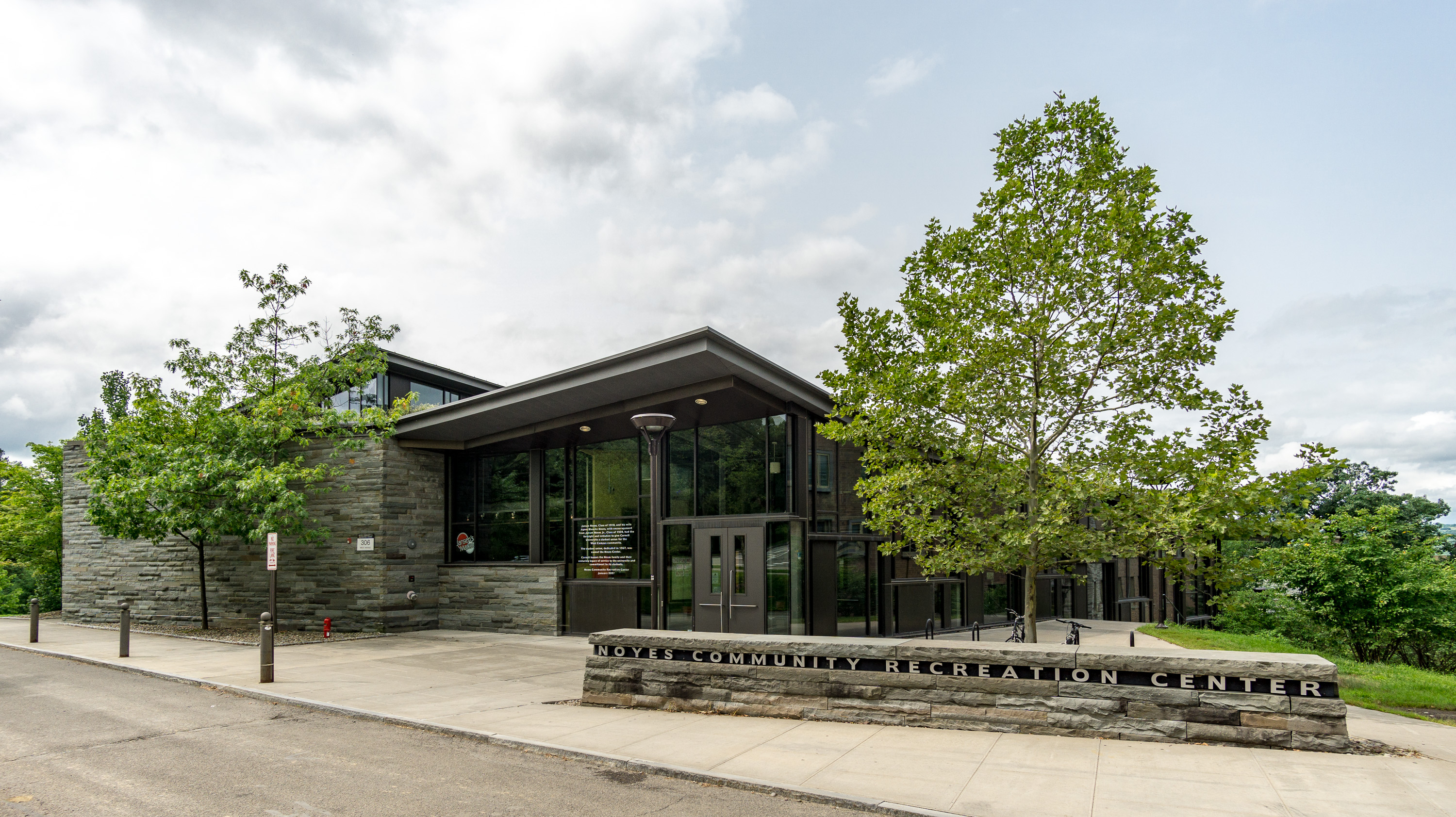 Noyes Community Recreation Center, Cornell University. Built 2007.